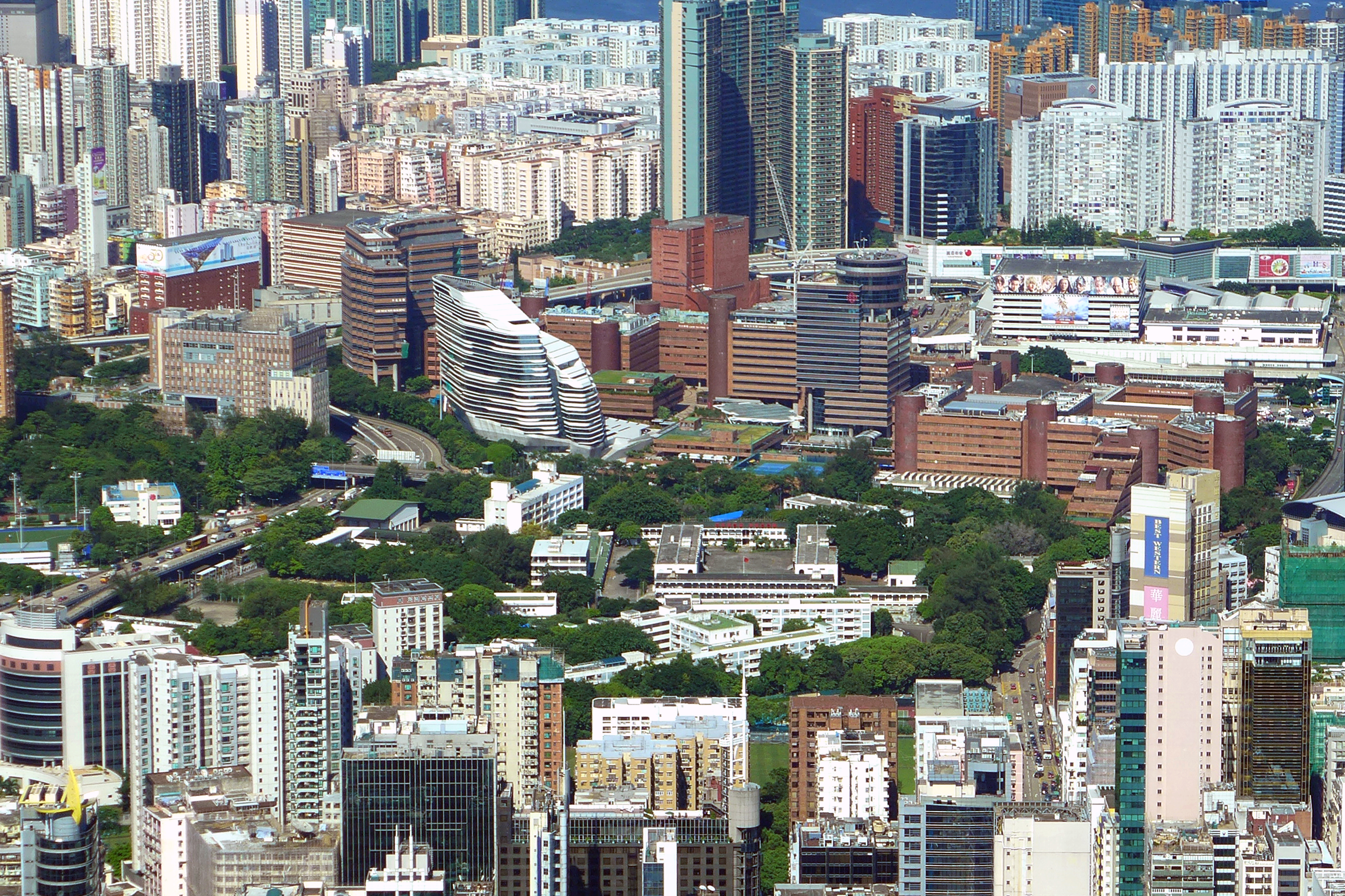 HKPU Campus Overview